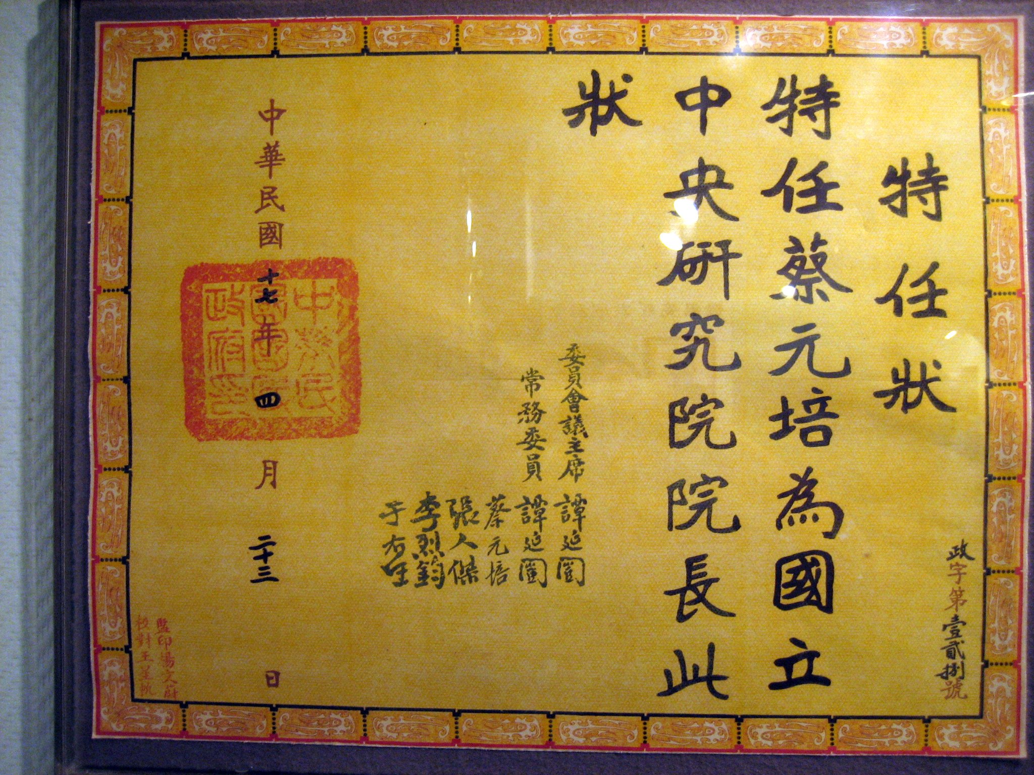 Appointment to be the principal of Academia Sinica for Cai Yuanpei, photoed by Mountain at Cai Yuanpei Memorial in Shanghai.